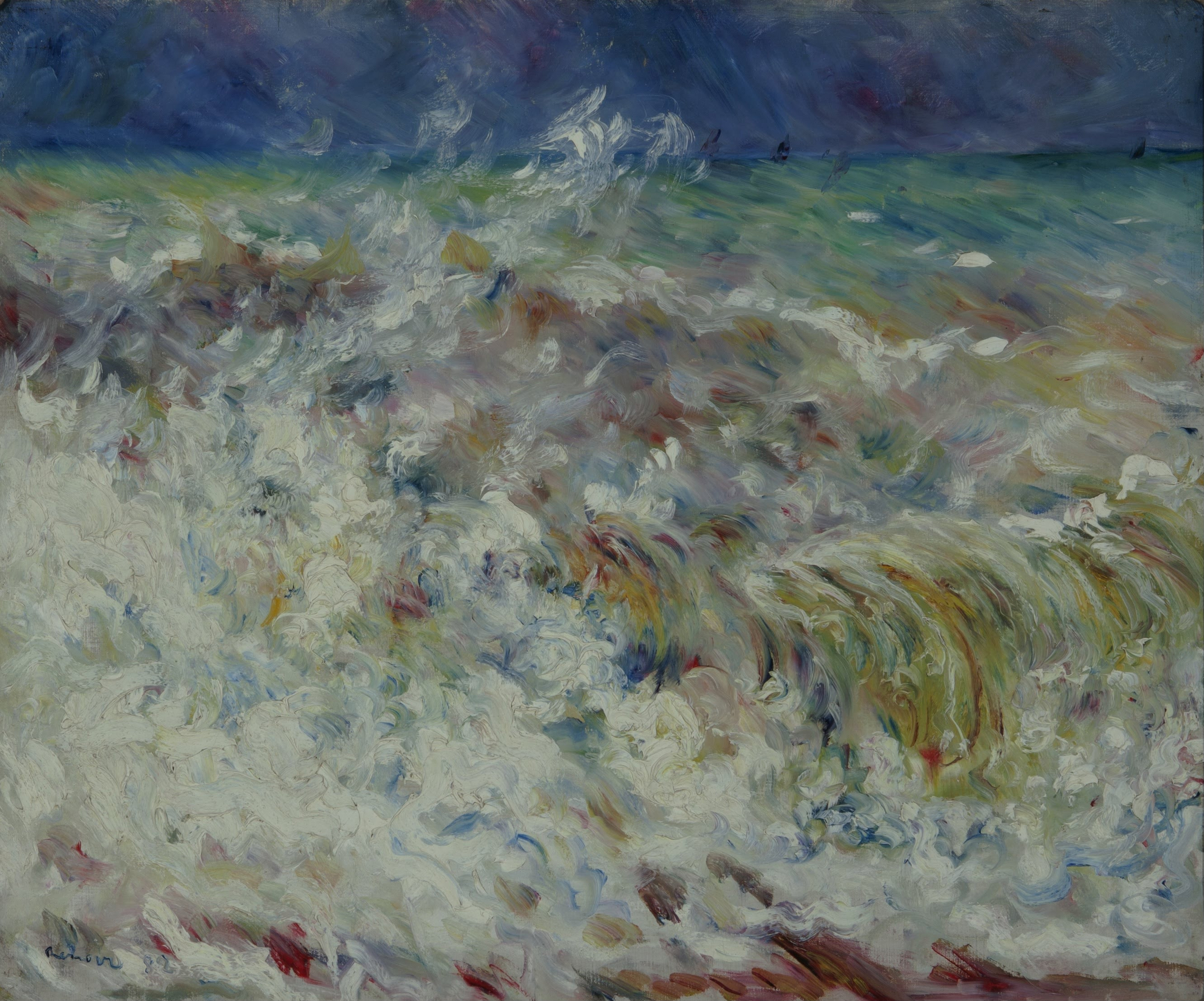 The Wave. Pierre-Auguste Renoir. Google Cultural Institute. oil on canvas, 21 1/4 x 25 5/8 inches. Owner: Dixon Gallery and Garden, Memphis, Tennessee, United States.